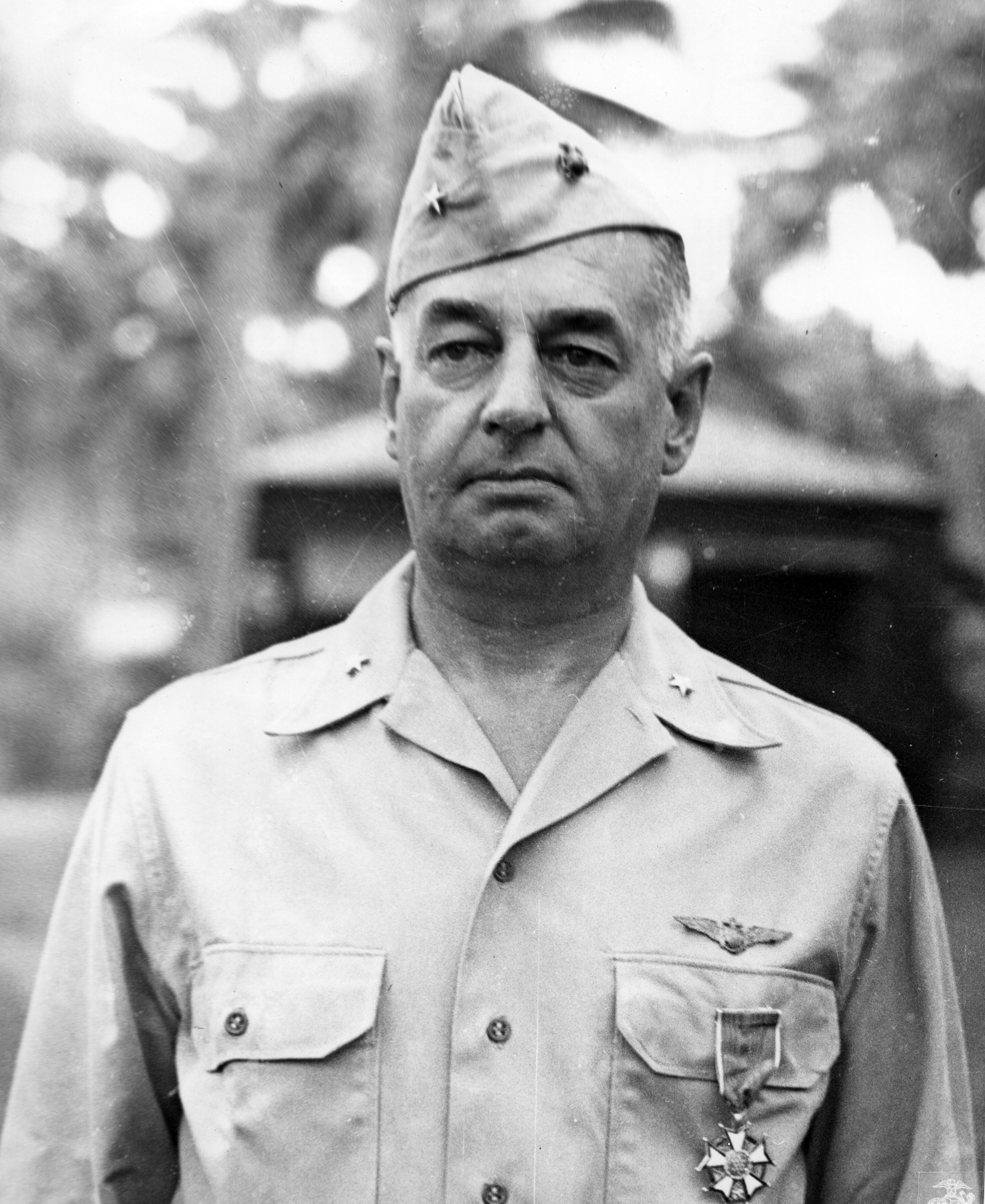 Harold Denny Campbell (March 30, 1895 – December 29, 1955) was a United States Marine Corps major general who served in World War I and World War II. He is most noted for his service as an aviation officer who commanded the 2nd Marine Aircraft Wing in Pacific theater and on the staff of Lord Mountbatten during World War II.